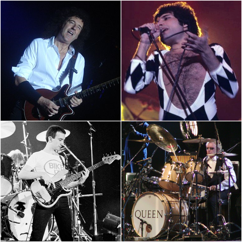 Compilation of the four members of Queen: Brian May (2008), Freddie Mercury (1977), John Deacon (1979), Roger Taylor (2005).